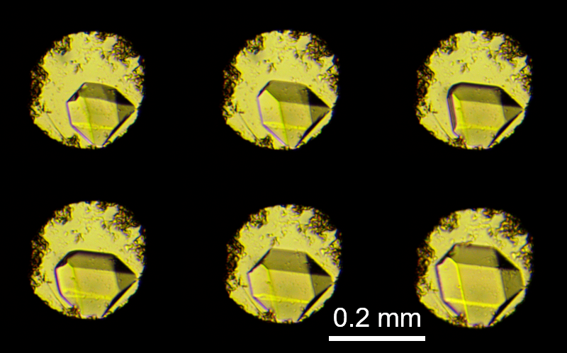 Crystallization of liquid water into tetragonal ice VI at room temperature and pressure of 0.9 GPa. Series of microphotographs of water droplet placed into a high-pressure diamond anvil cell.